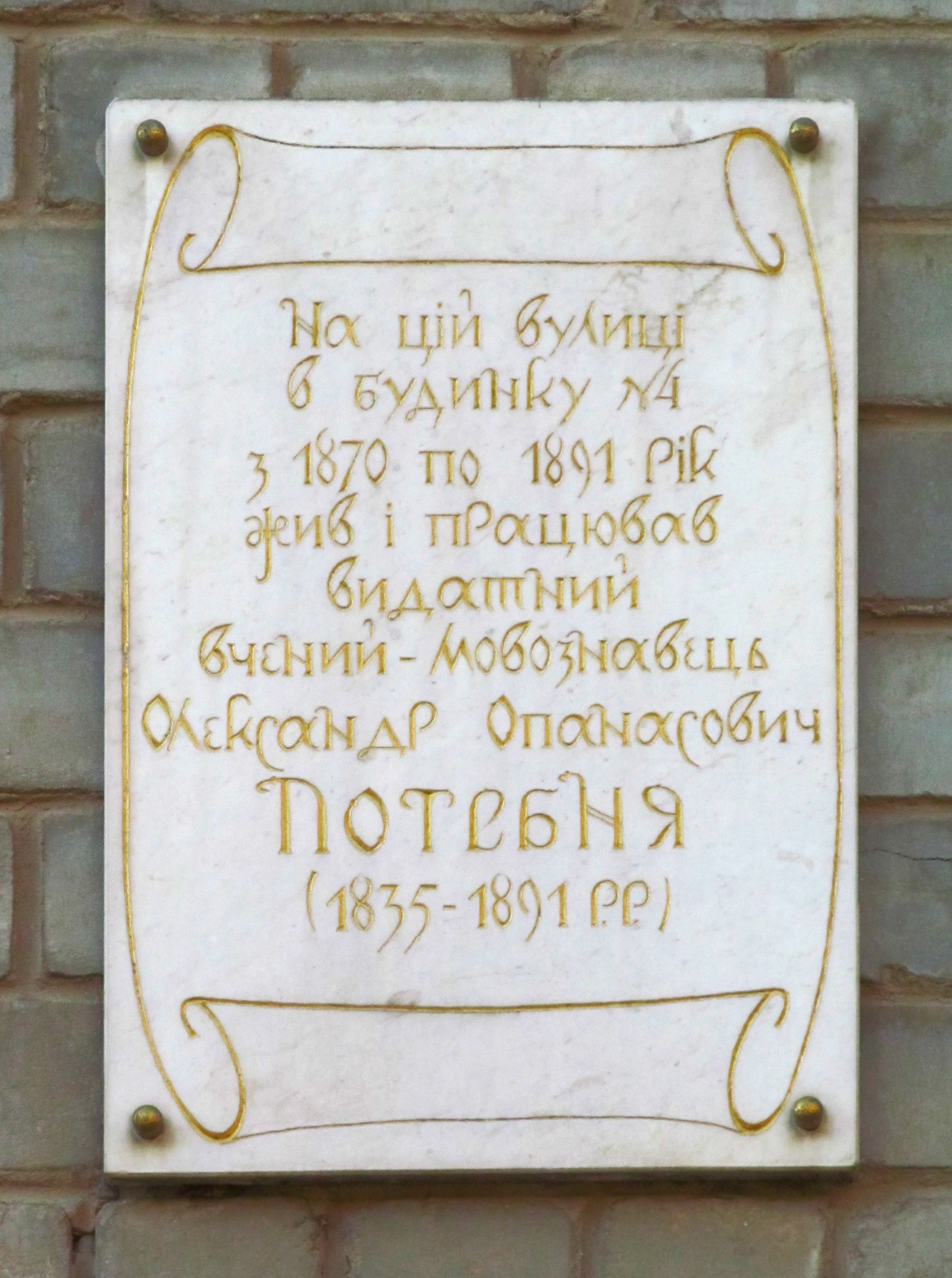 Commemorative plaques on Potebni Street,1, in Kharkiv, Ukraine.